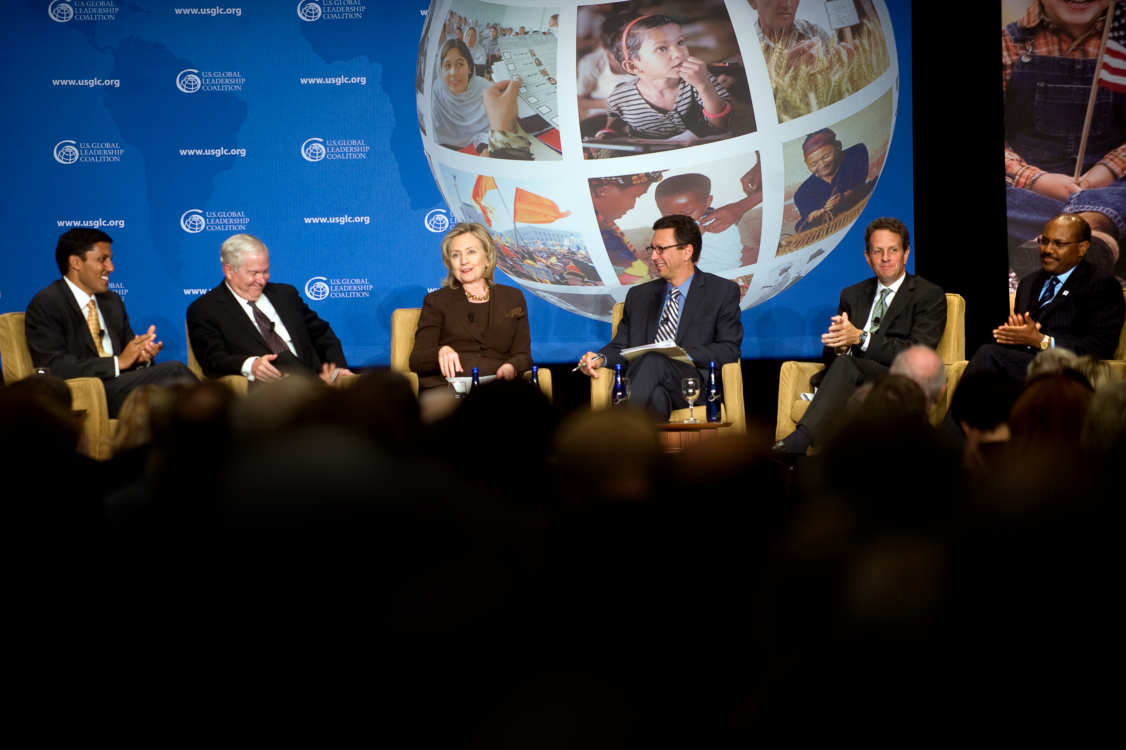 From left, USAID Administrator Rajiv Shah; U.S. Secretary of Defense Robert Gates; Secretary of State Hillary Rodham Clinton; moderator Frank Sesno, director of the School of Media and Public Affairs at George Washington University; Treasury Secretary Timothy Geithner; and Millennium Challenge Corporation CEO Daniel Yohannes take part in the U.S. Global Leadership Coalition roundtable discussion in Washington, D.C., Sept. 28, 2010.